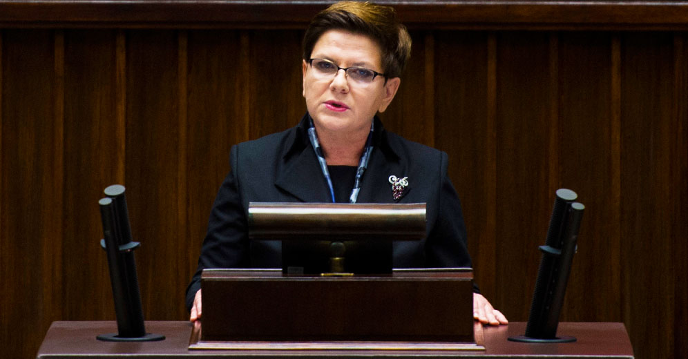 Polish PM Beata Szydło delivers a speech presenting her cabinet's programme to be realized.